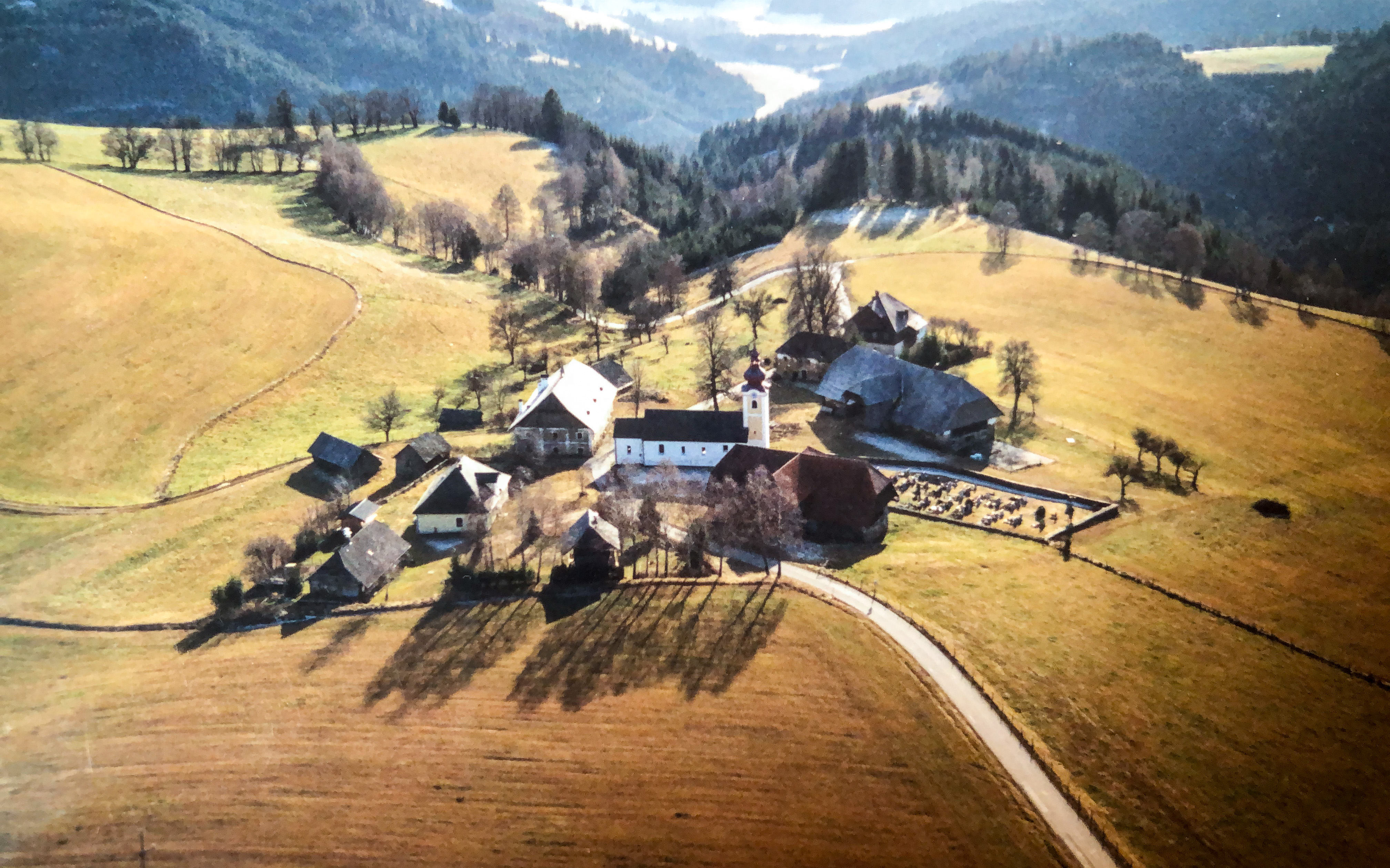 St. Jakob ob Gurk in the Gurktal Alps Carinthia / Austria / EU.